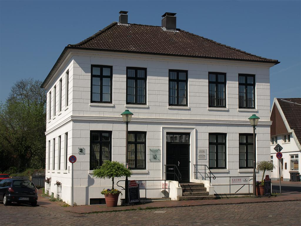 Uetersen (Germany), Marktstr. 2 , photo 2008